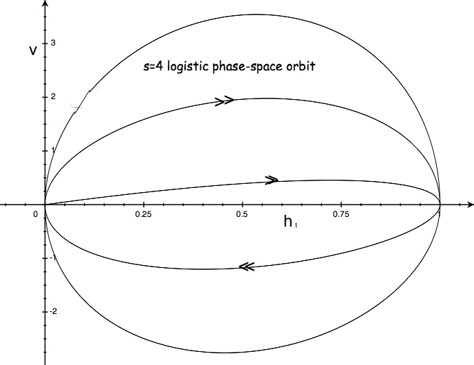 the first 5 half cycles of the phase-space orbit of the s = 4 holographically interpolated logistic map x → 4x(1 − x). The x, y axes depict p(t) rescaled and x(t) normalized from 0 to 1.